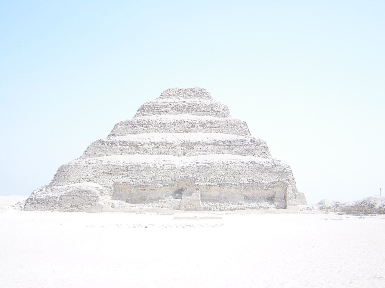 Replacement picture of Step Pyramid – own image of Markh, 2003